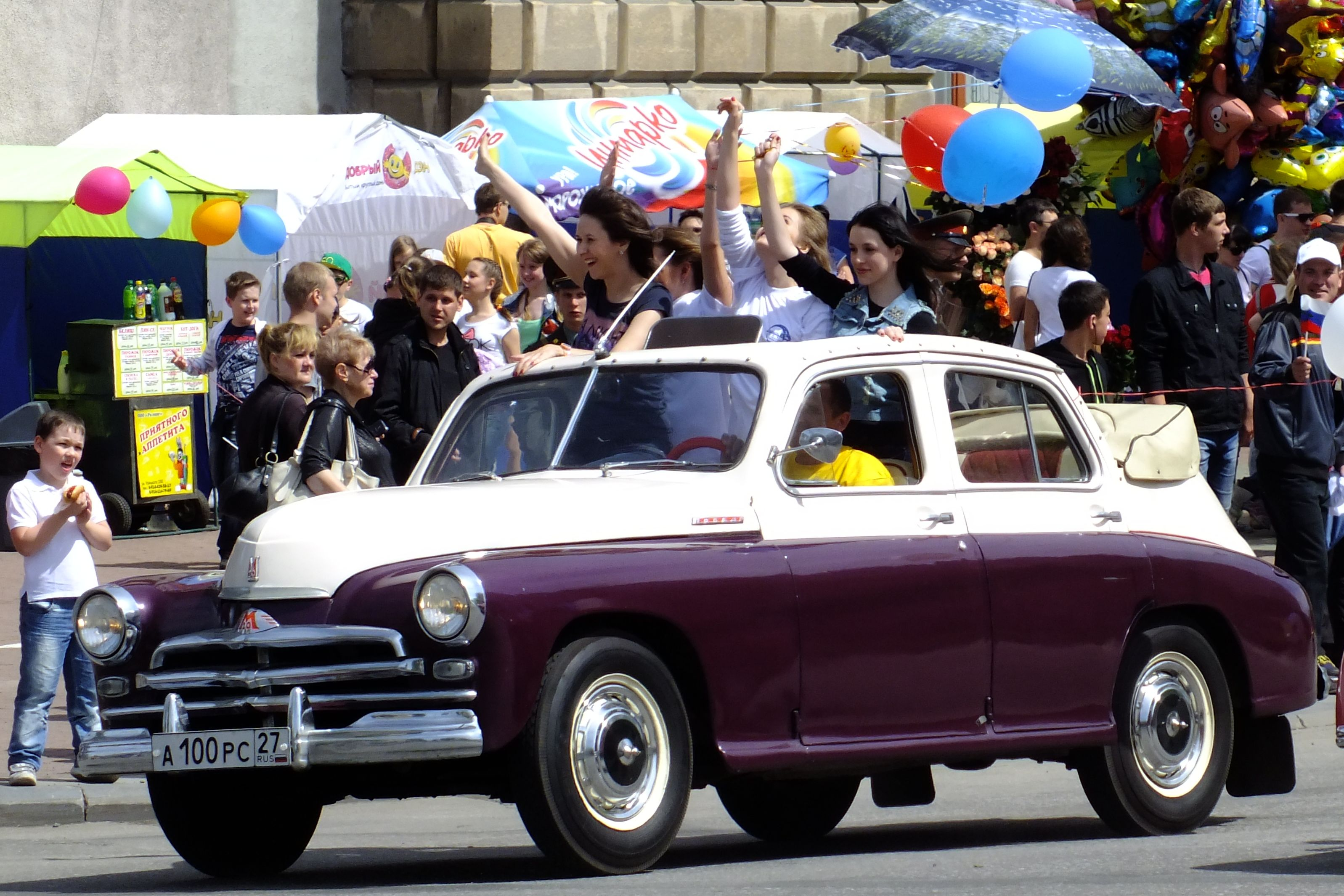 GAZ-M20V Pobeda - custom conversion to cabrio